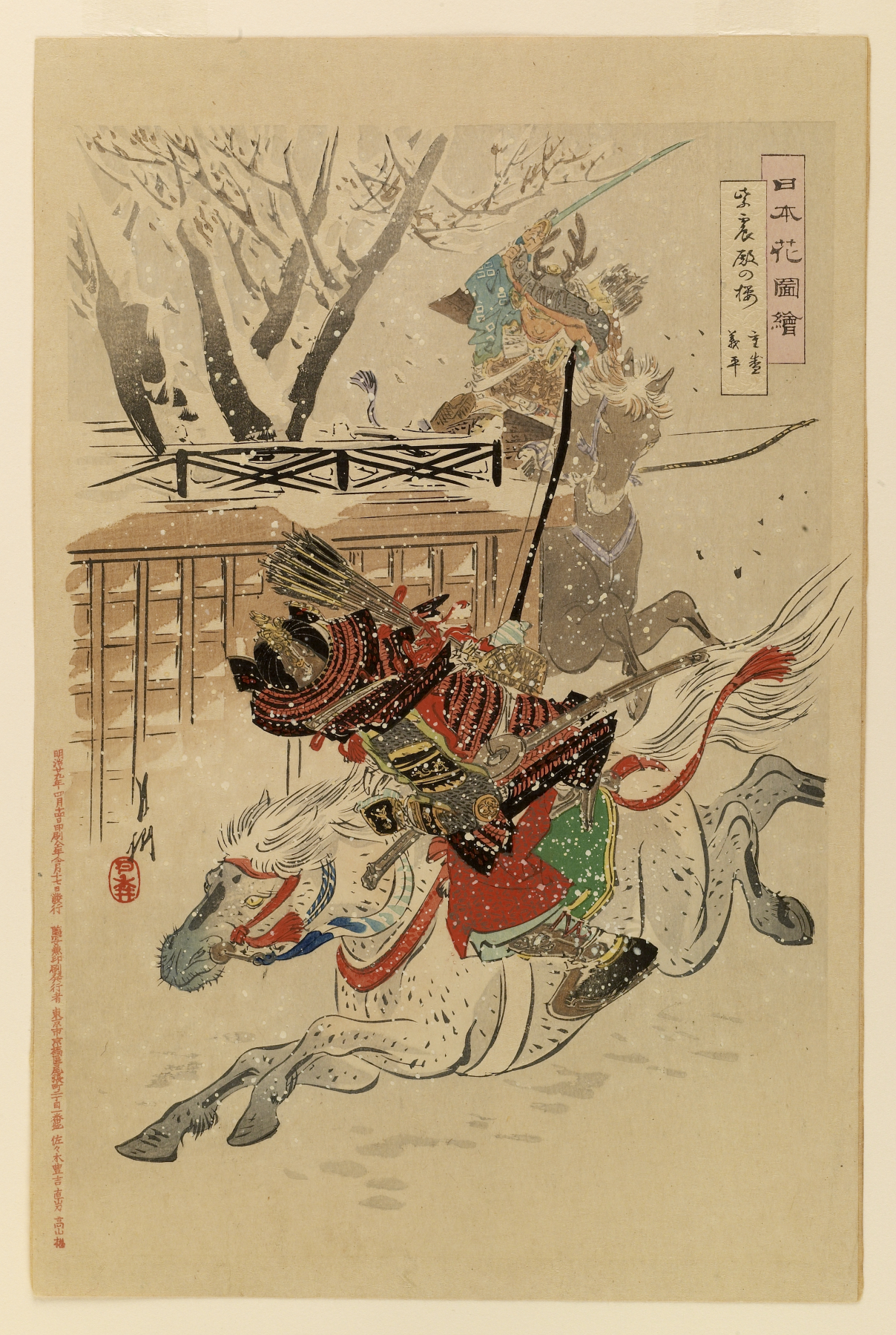 In the course of the civil wars of the 12th century, Minamoto Yoshihira (with antlers on his helmet) was defeated in a battle that took place in 1159, and the following year, at age 20, he was executed.